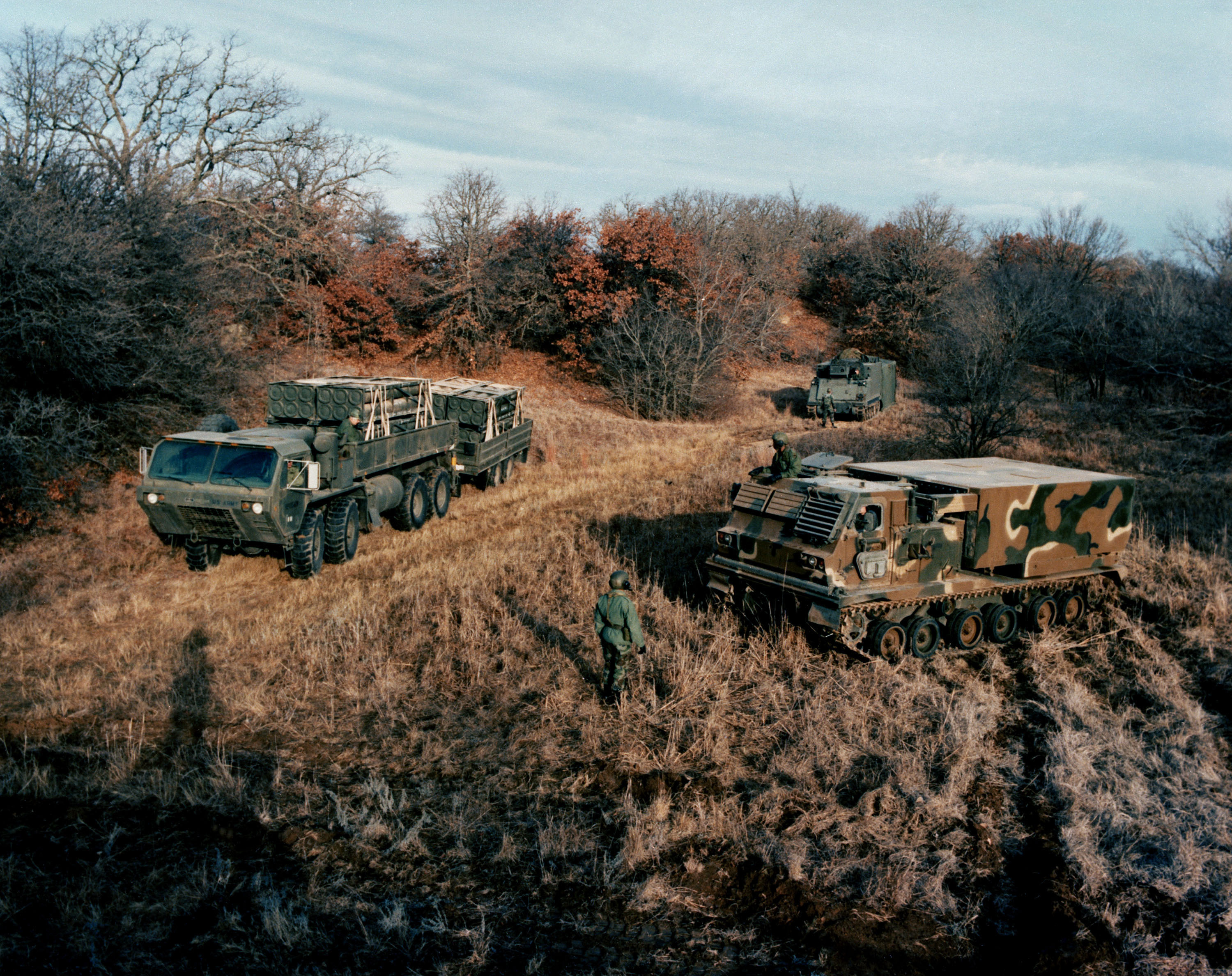 A view of a multiple launch rocket system (MLRS) self-propelled launcher loader (SPLL), right, a heavy expanded mobility tactical truck (HEMTT), and a tracked armored personnel carrier (APC). Location: White Sands Missile Range